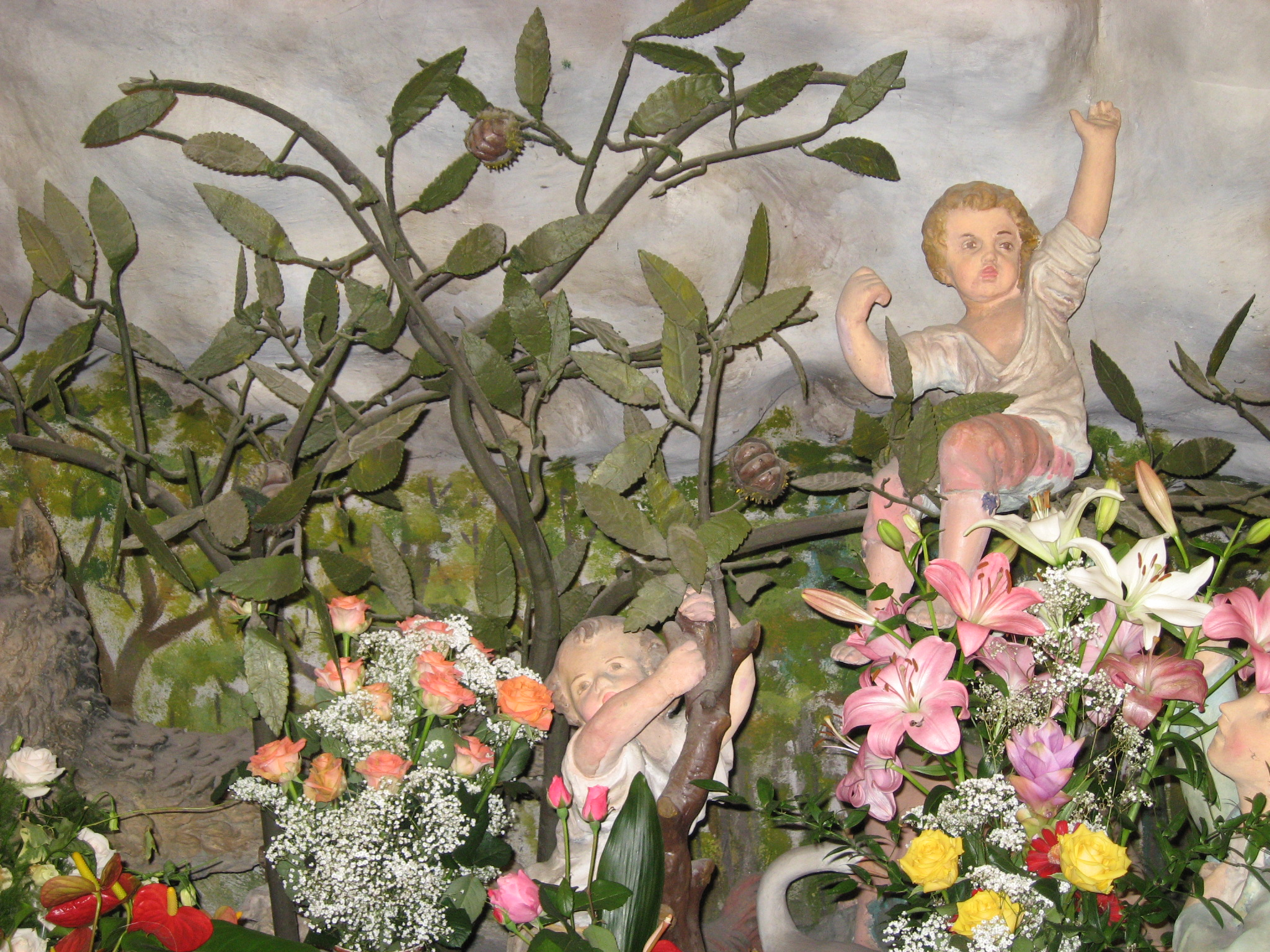 Miracle of the chestnuts. Santuario della Madonna del bosco in Imbersago, Italy